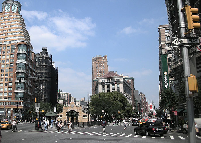 The Upper West Side of Manhattan, New York City. Photo taken on West 71st Street, at the intersection of Broadway and Amsterdam Avenue. August 2007. Photo by Kevin C. Fitzpatrick.